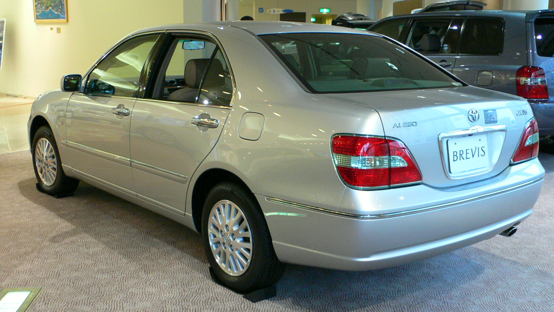 Toyota_Brevis(2004) taken in Showroom of Toyota-AMLUX